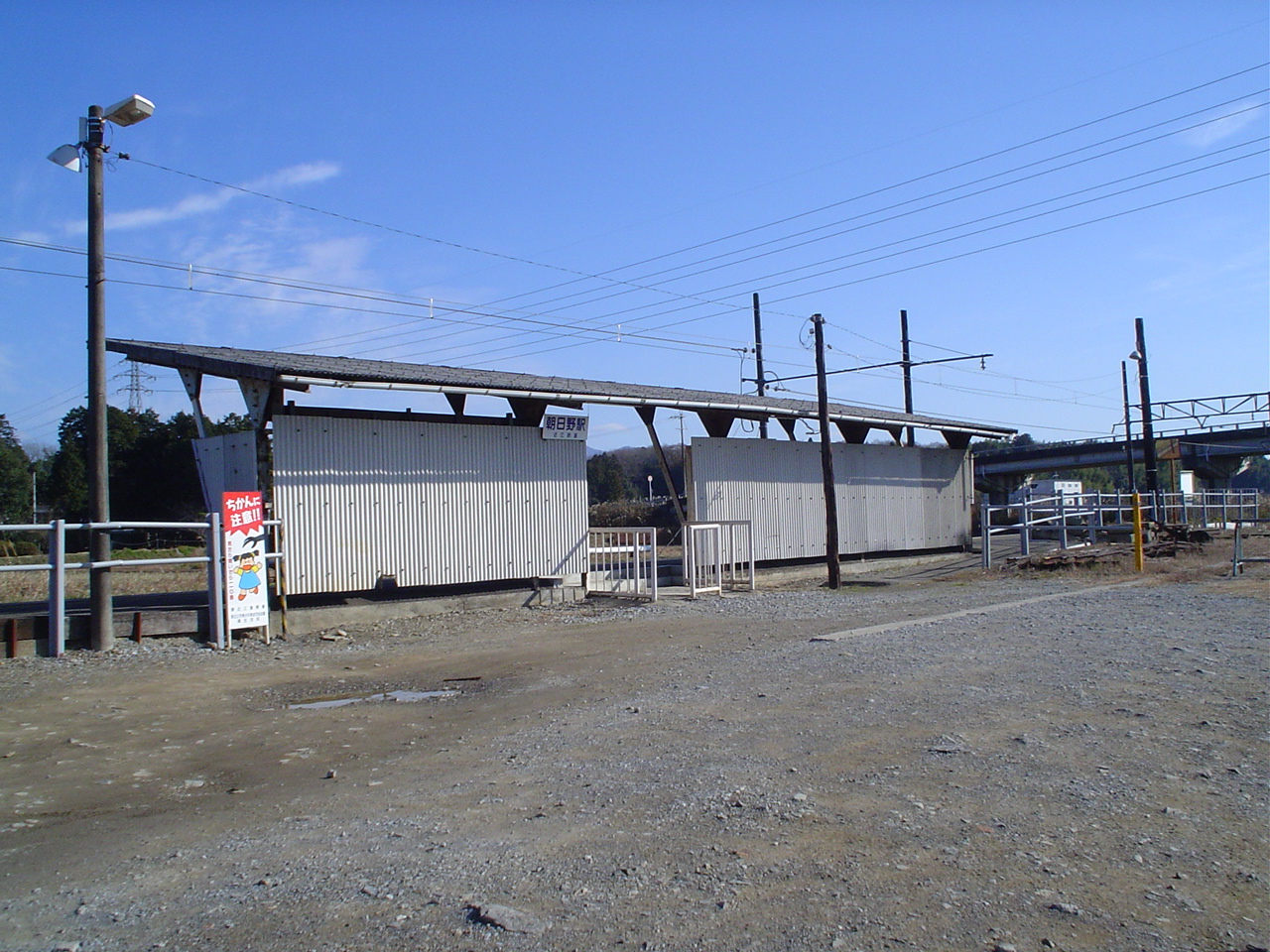 Asahino Station in shiga pref, japan